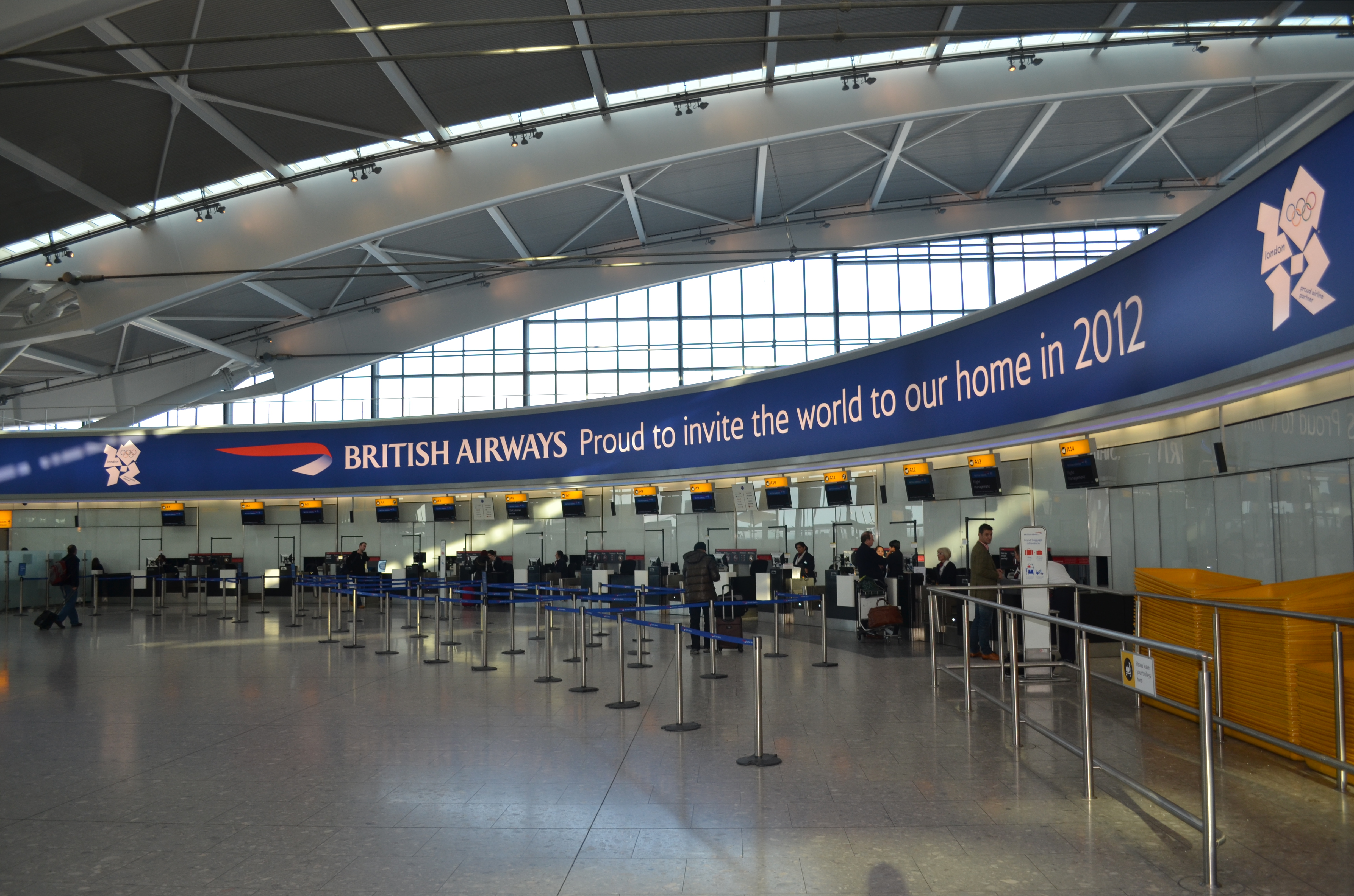 Heathrow airport is the main airport for London. Terminal 5 is the newest terminal and mainly used by British Airways. Facilities are good and there are many restaurants and shops. Terminal 5 is connected to the London Underground.